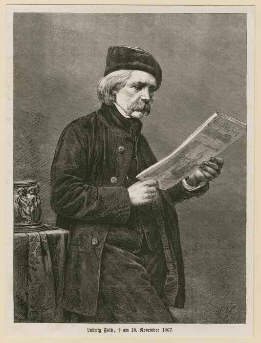 The german painter and architect Ludwig Foltz (1809-1867)